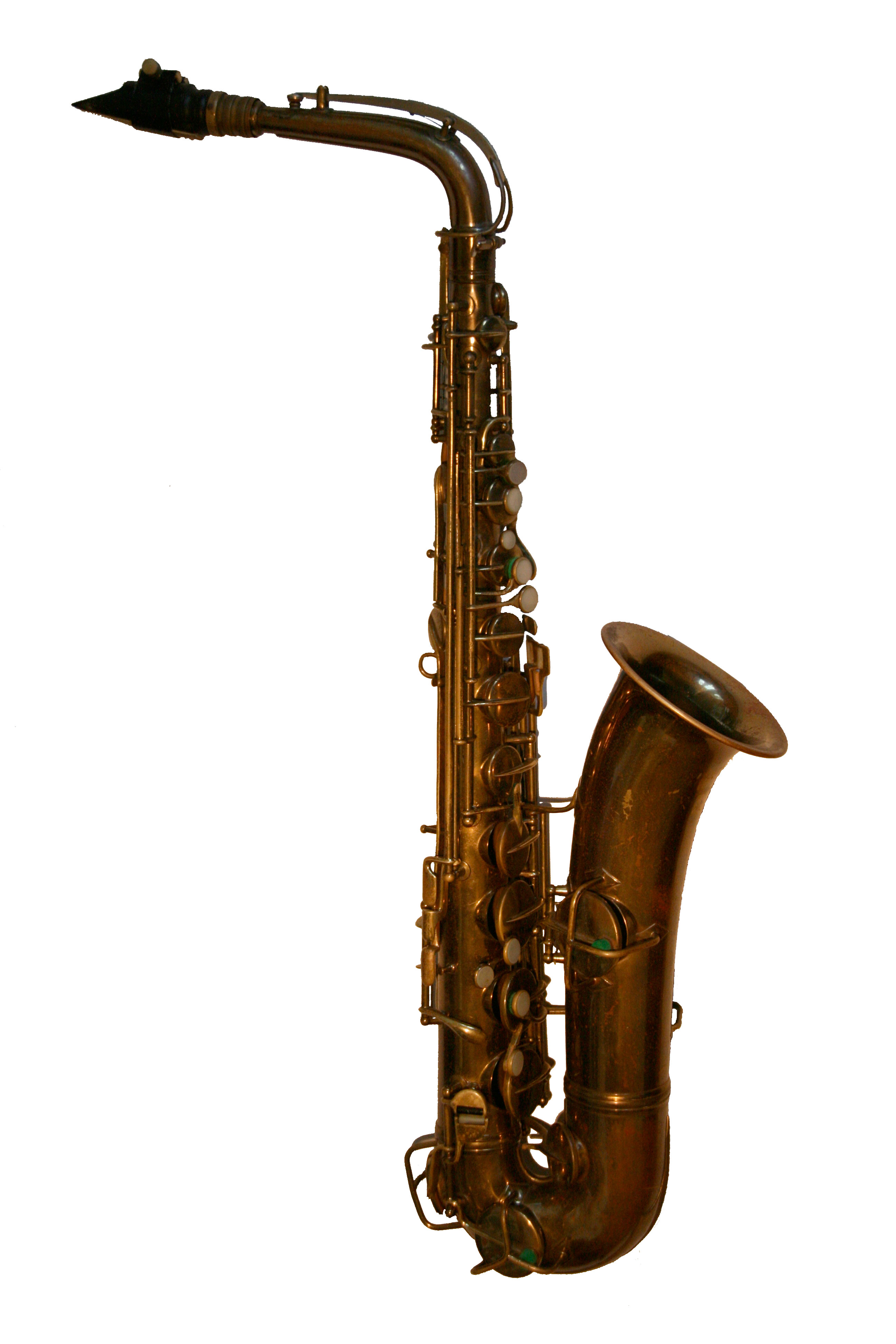 A C melody saxophone made by C. G. Conn